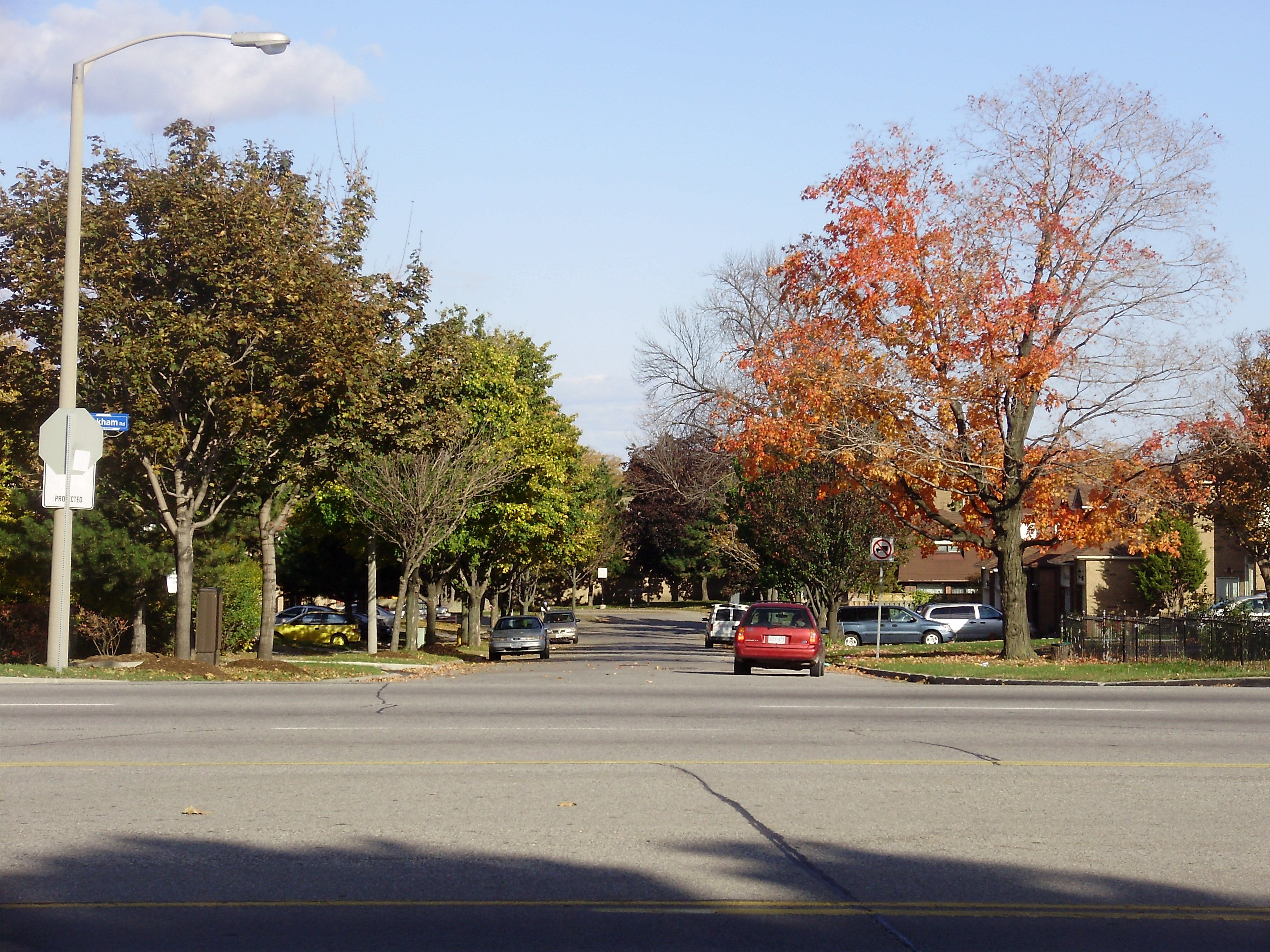 Looking east down autumnal Verne Crescent from across Markham Road in the Malvern neighbourhood of Scarborough, Ontario, Canada.